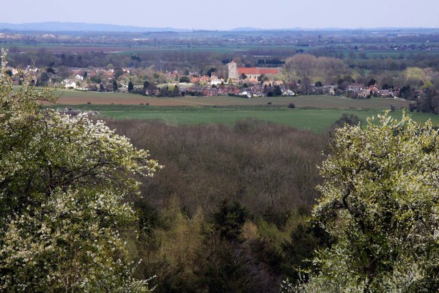 Dorchester on Thames from Castle Hill